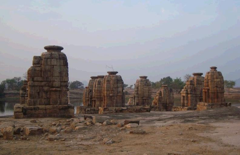 Temple cluster of Ranipur Jharial, Photo taken by me on 13th April 2010